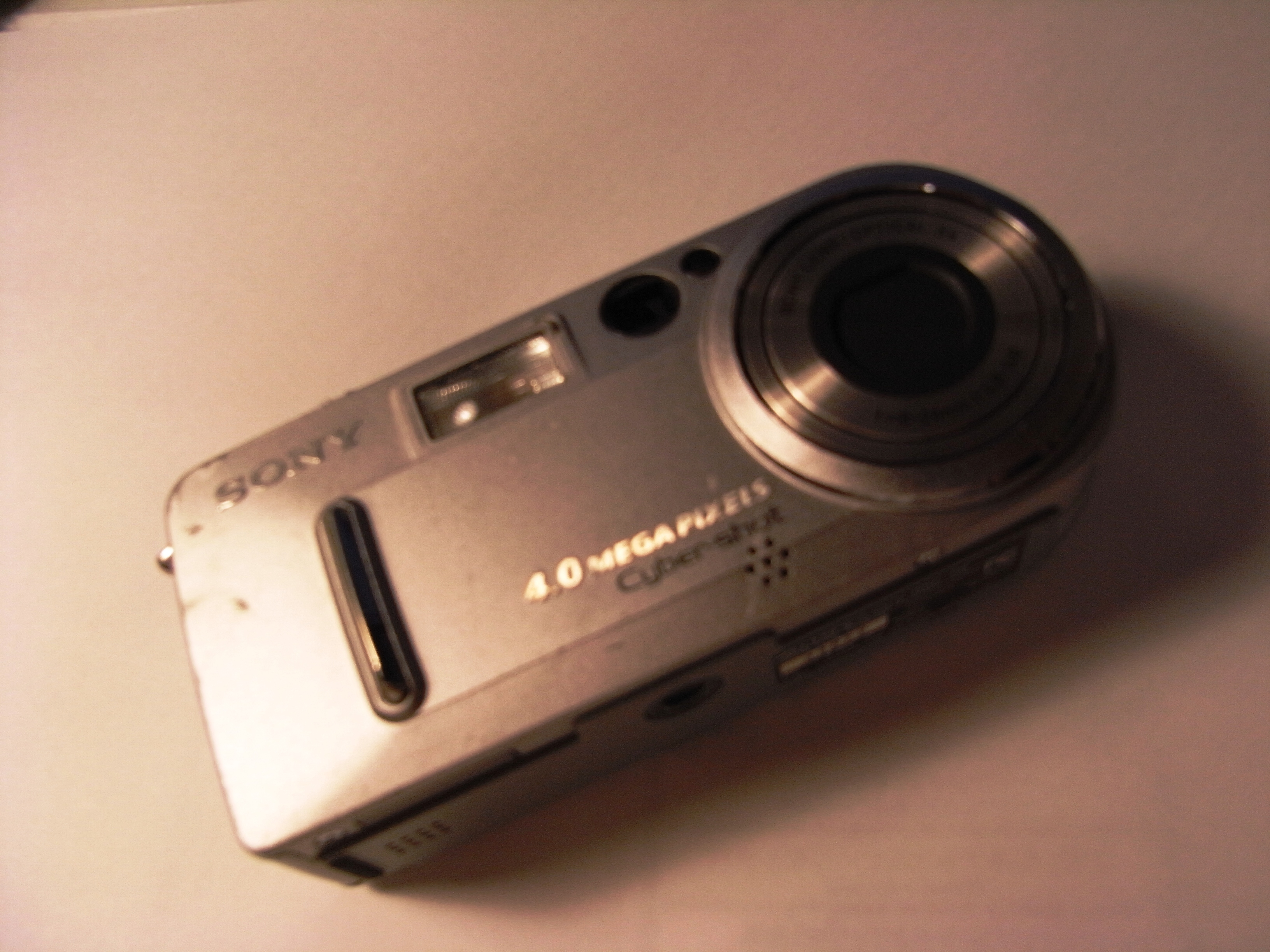 Digital camera Sony Cyber-shot DSC-P9